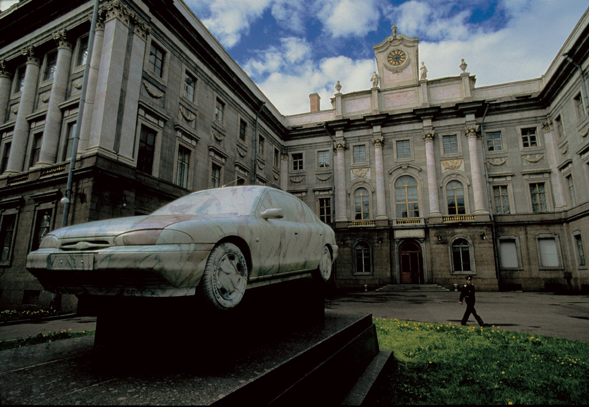 Art work of HA Schult: Marble Car in front of the Marble Palace St.Petersburg, created 1994